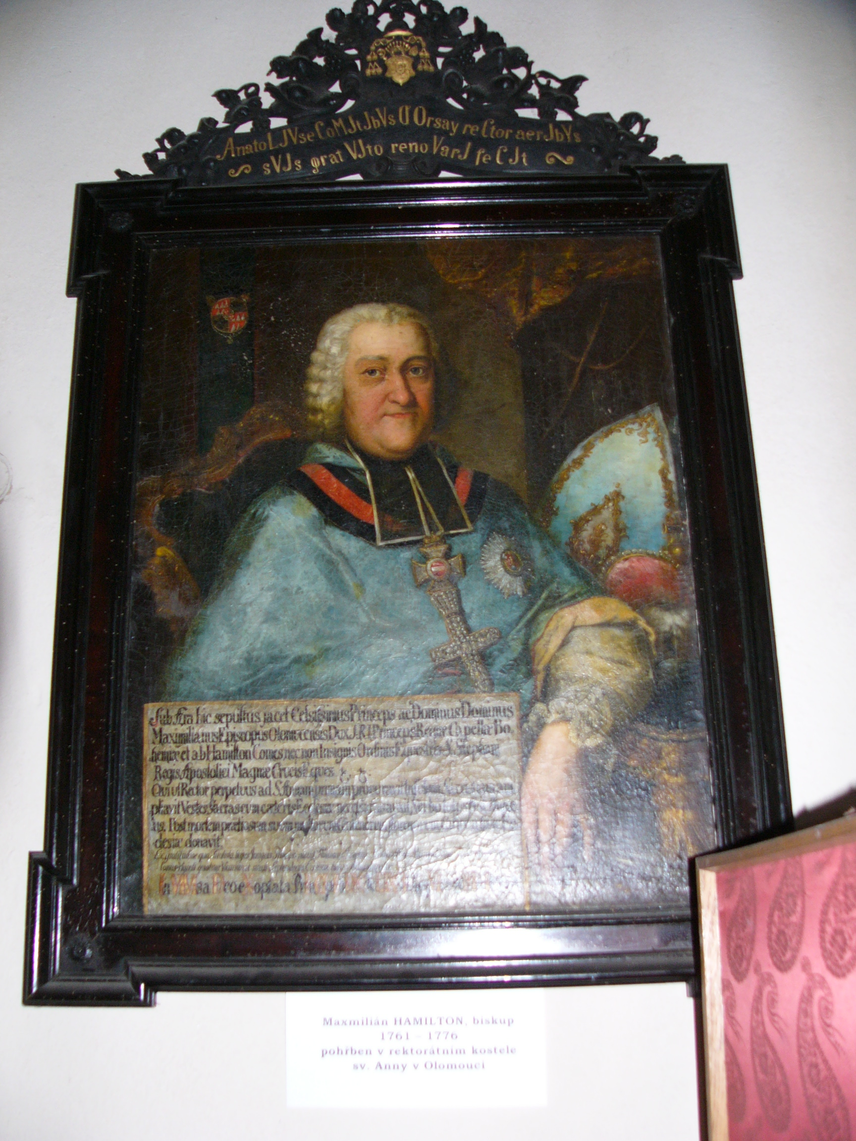 Painting of bishop of Olomouc Maxmilián z Hamiltonu in St. Wenceslaus cathedral in Olomouc (Czech Republic).